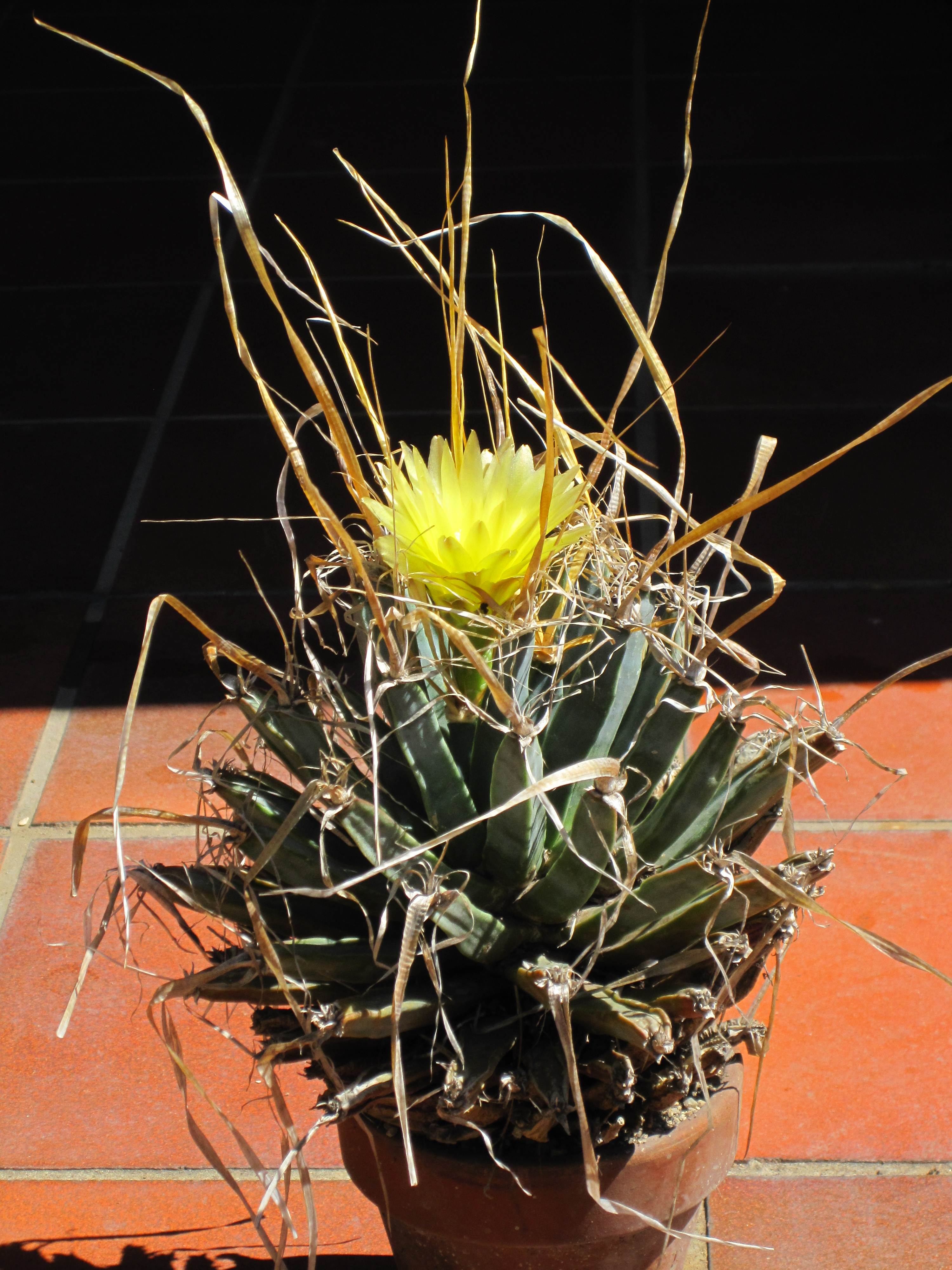 Leuchtenbergia principis in lower